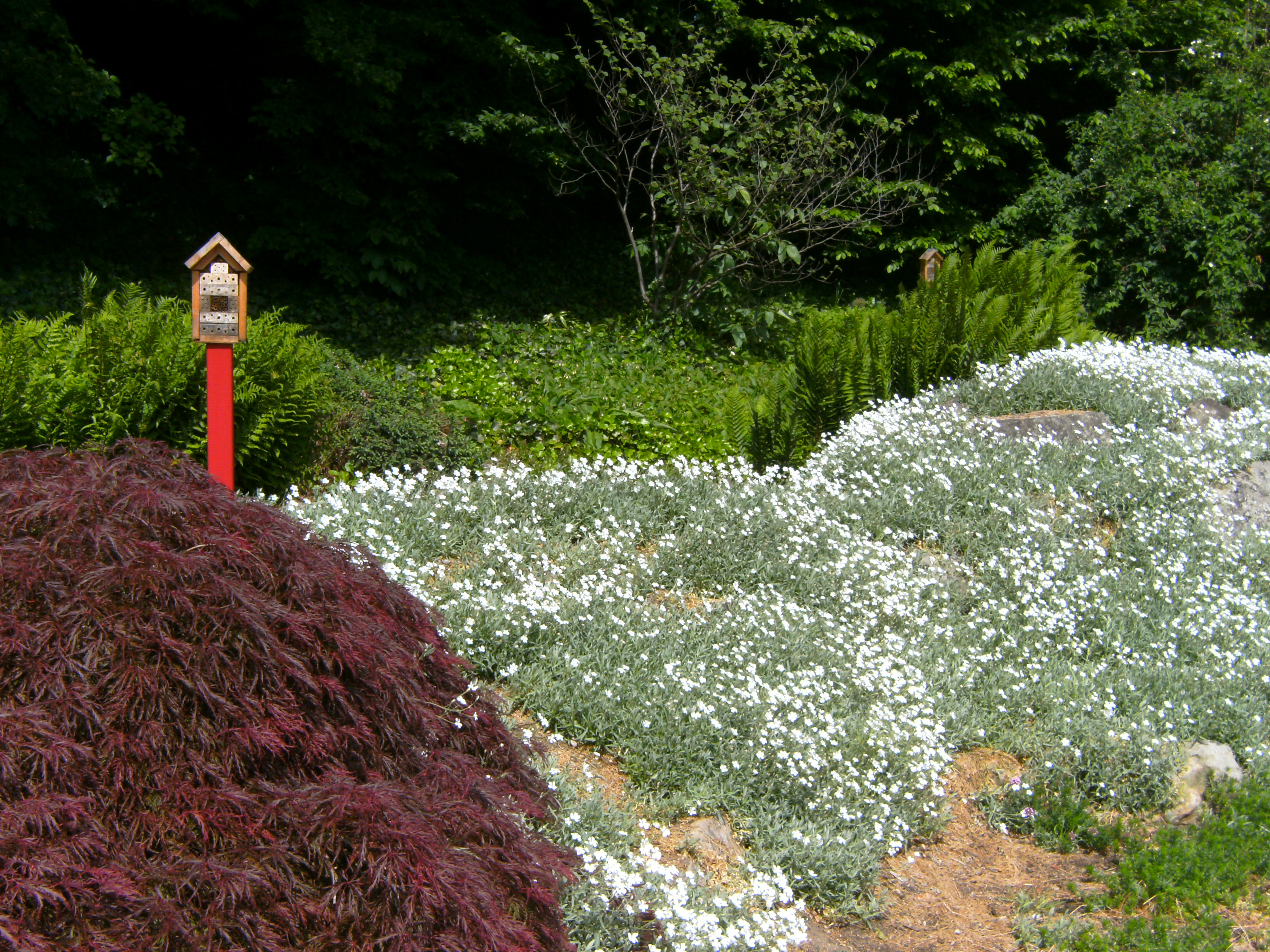 Hamburg, Germany, botanischer Sondergarten (special botanical garden) Wandsbek: flowers and dwelling for insects.